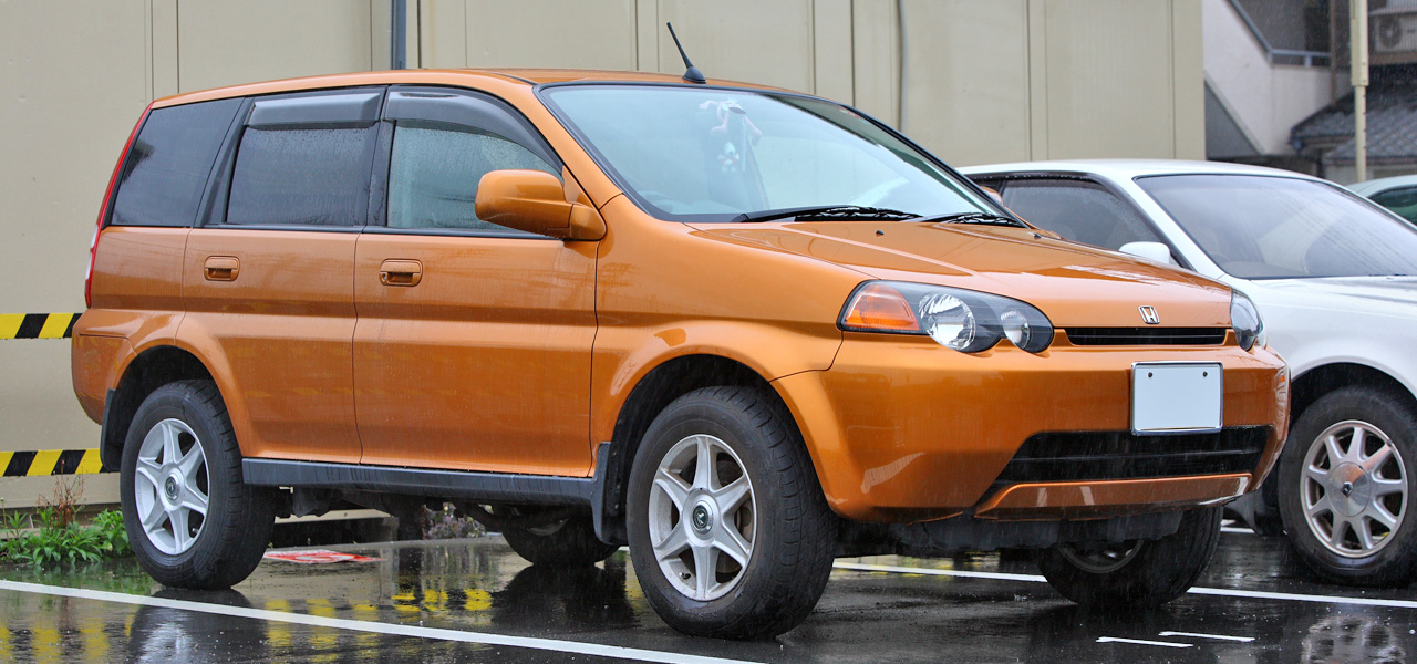 Honda HR-V